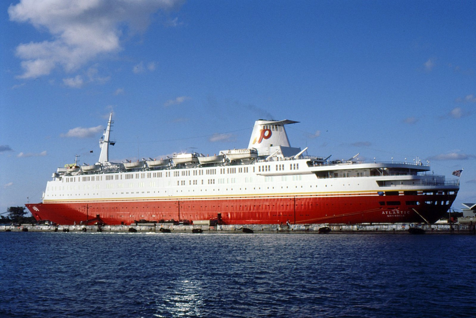 The cruise ship StarShip Atlantic at Nassau on November 13, 1989.